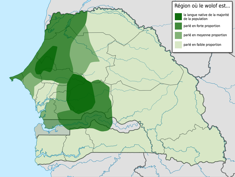 Wolof speakers according to the Dictionnaire wolof-français cited above. Categories go from darkest to lightest: Zone with a majority of native speakers of wolof Zone with a high density of wolof speakers Zone with a medium density of wolof speakers Zone with a low density of wolof speakers